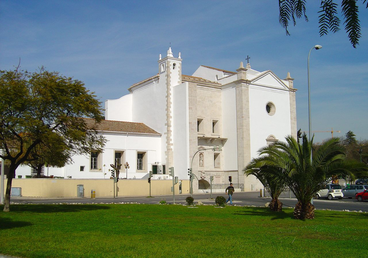 Santuário da Sra. da Luz See where this picture was taken. [?]